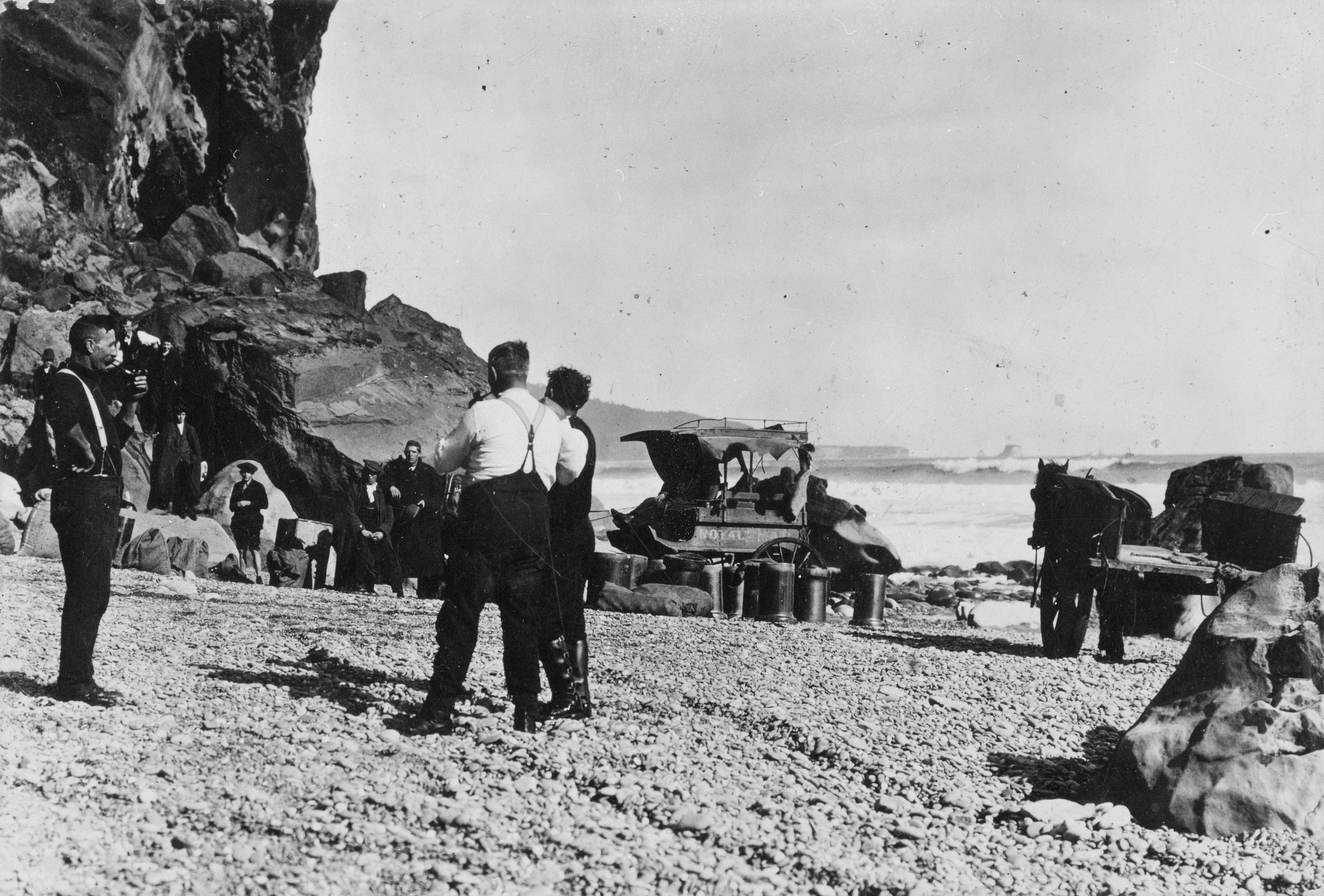 View of people standing with horse-drawn vehicles: carriages and Royal Mail delivery coach and a cart on Barrytown beach, West Coast. Shows the cart used to carry material for roads around the shoreline to Barrytown. The group includes: W Heffernan, John Ryall, John Lewis, D J Moore, T Ryall, T Cargill, John Moore. Photograph taken in 1914, by an unidentified photographer.